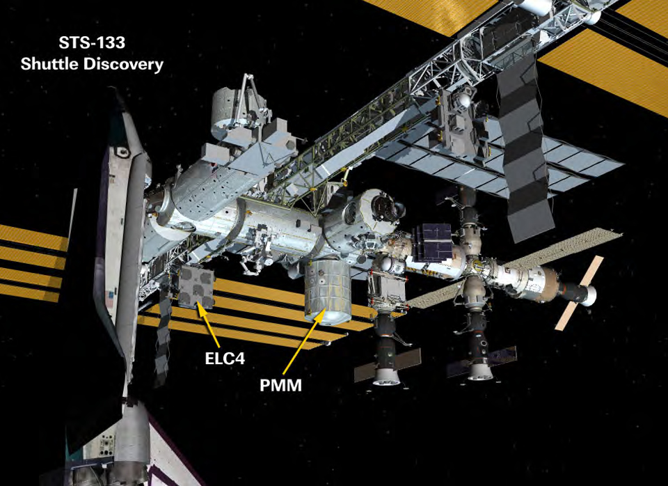 This graphic depicts the installed location of the PMM and ELC4 on the station.